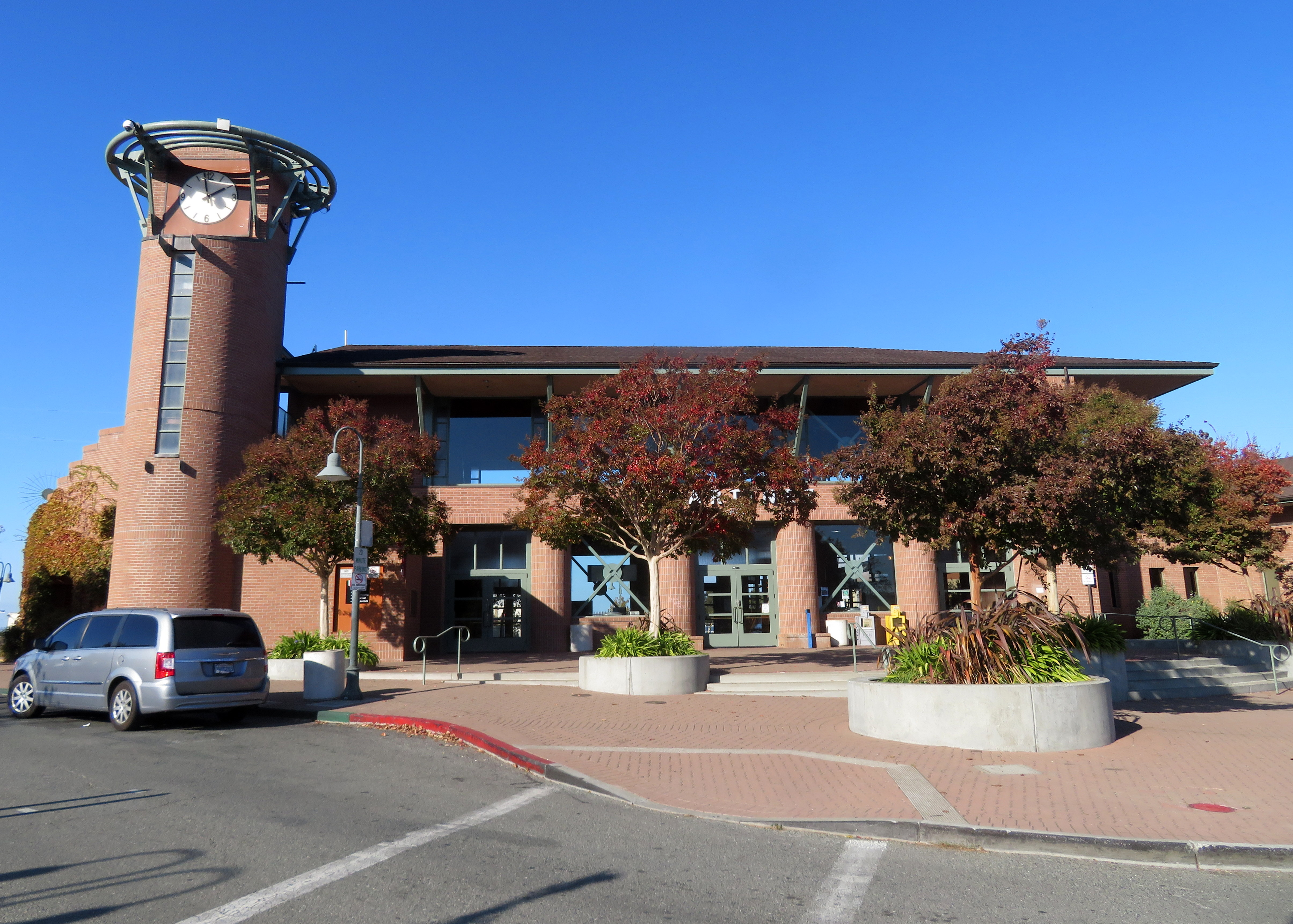 Martinez station in November 2019